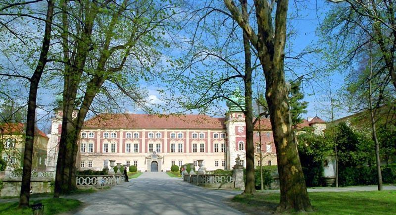 Lubomirski Castle in Łancut in Poland